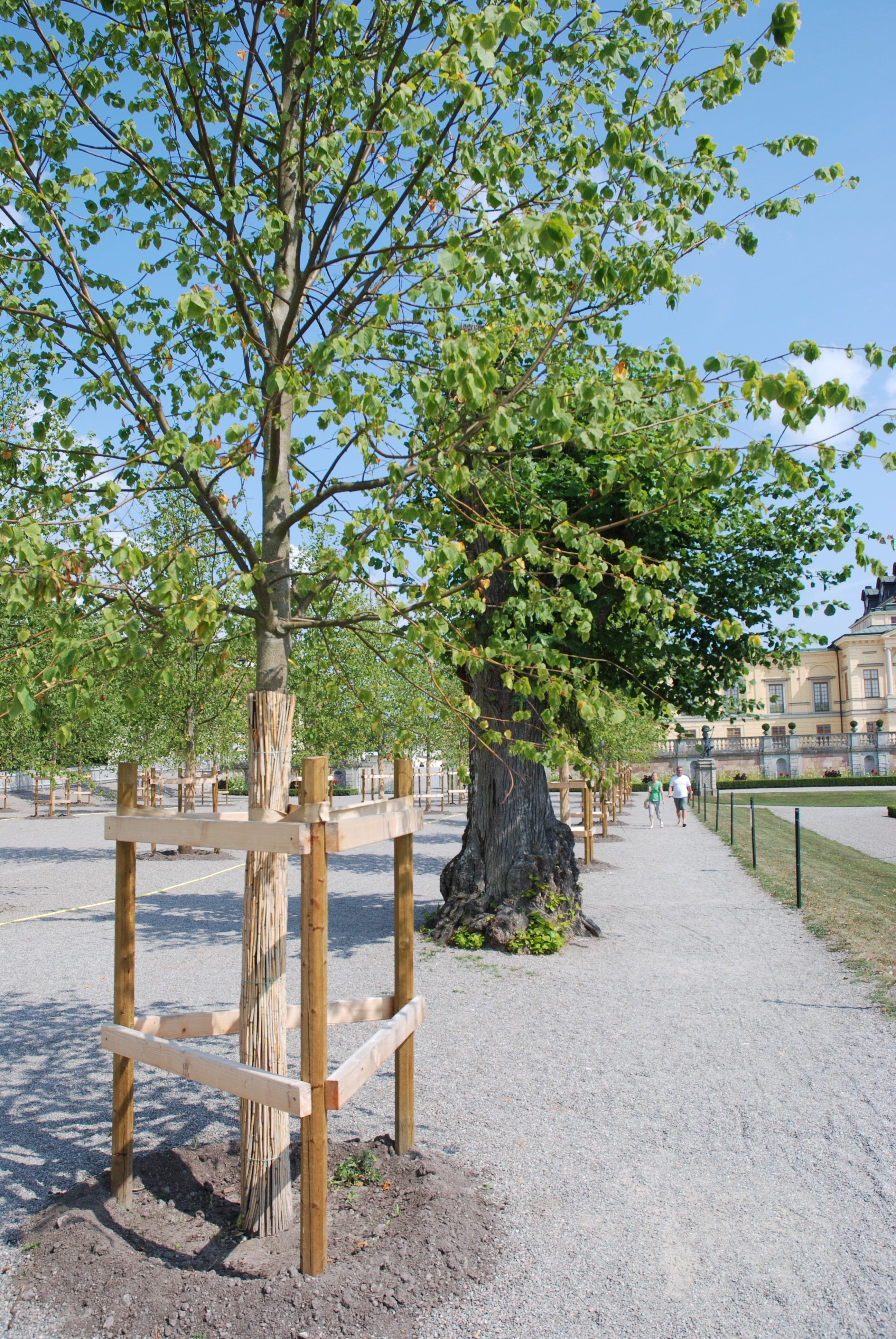 Ny lind och gammal i Drottningholms slottspark